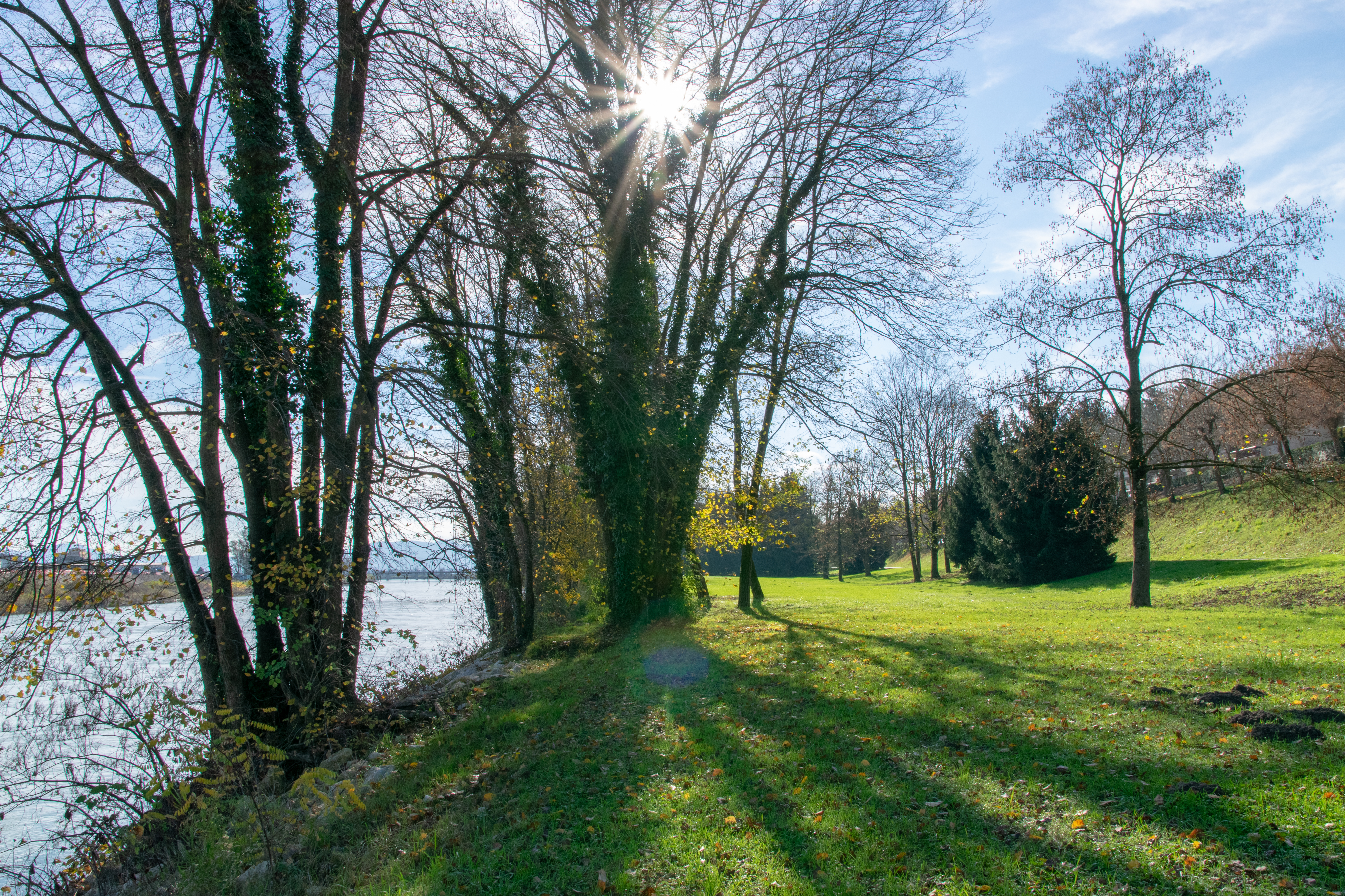 By the Sava river.